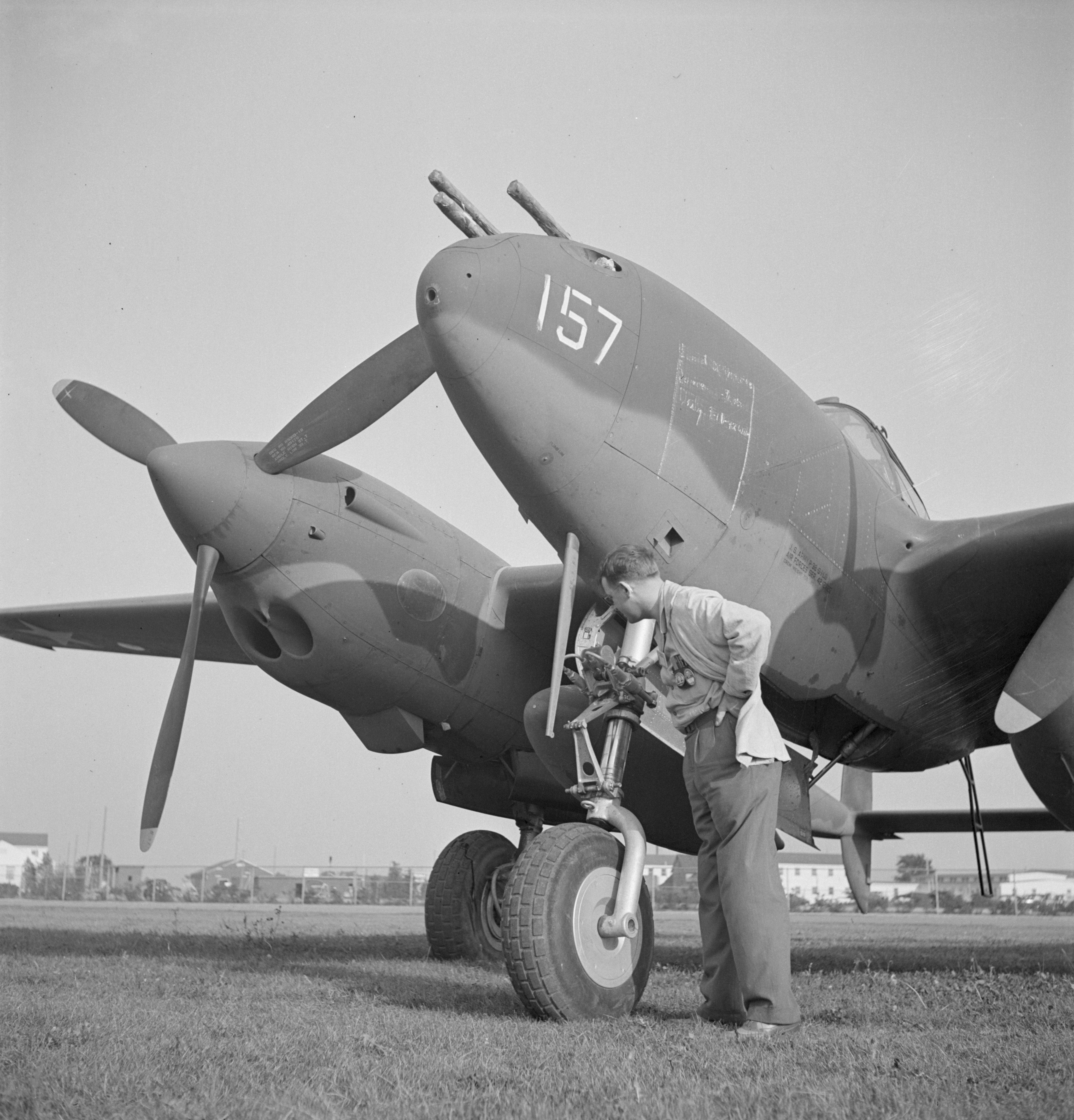 Lockheed P-38G-1-LO Lightning, serial 42-12723 (description). Original caption: Wayne County Airport, a United States Army Air Corps air ferry command base sixteen miles from Detroit, Michigan. Factory inspector and Captain Roddy